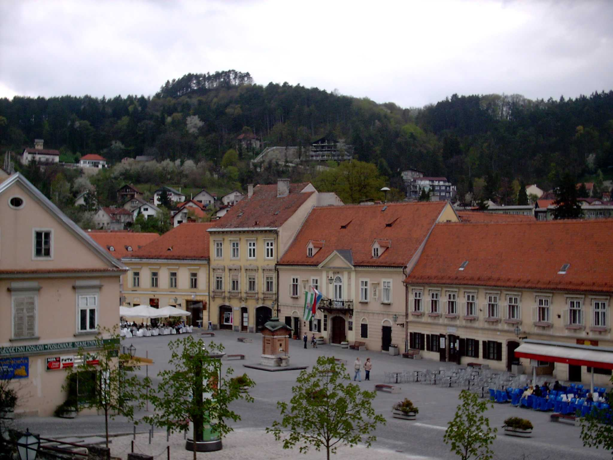 Marketsquare in Samobor